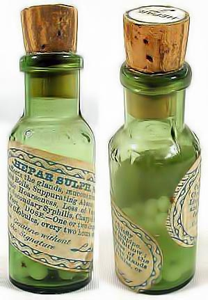 Old homeopathic remedy, Hepar sulph.